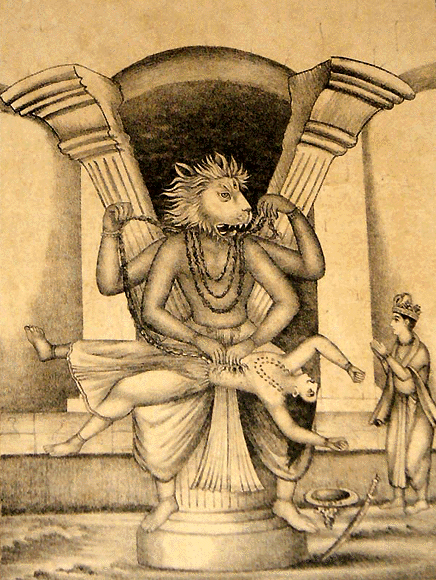 The following illustrations are from the book entitled "The Ten Principal Avataras of the Hindus: A Short History of Each Incarnation and Directions for the Representations of the Murtis as Tableaux Vivants" by Sourindo Mohun Tagore, published in 1880 in Calcutta.